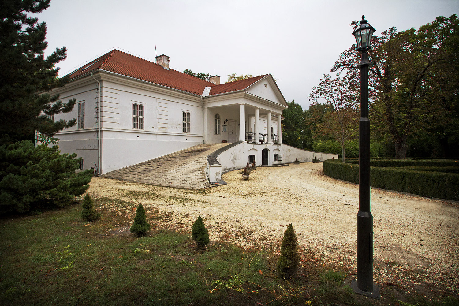 Mansion of Móric Halász, a big Neoclassical building. - Loc:Biksza Rd, Dabas-Gyón district of Dabas town, Pest county